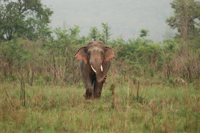 Asian elephant tusker